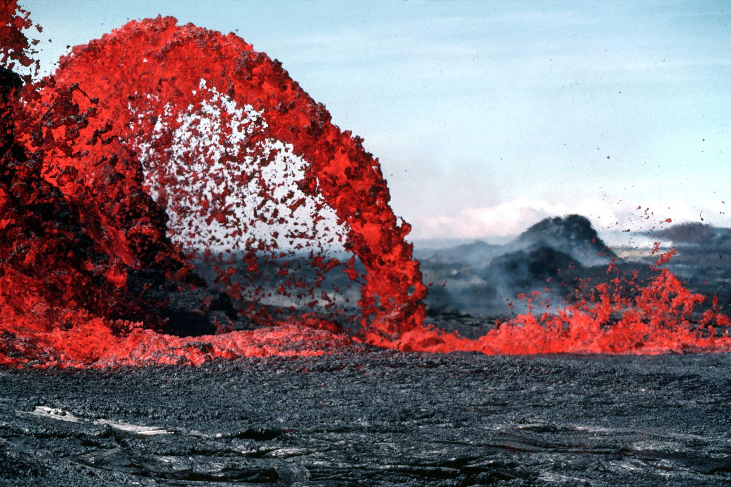 Arching fountain of a Pahoehoe approximately 10 m high issuing from the western end of the 0740 vents, a series of spatter cones 170 m long, south of Pu‘u Kahaualea. Episodes 2 and 3 were characterized by spatter and cinder cones, such as Pu‘u Halulu, which was 60 m high by episode 3.